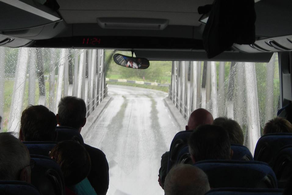 Bridge for road E6 over Namsen river in Grong municipality in Norway.